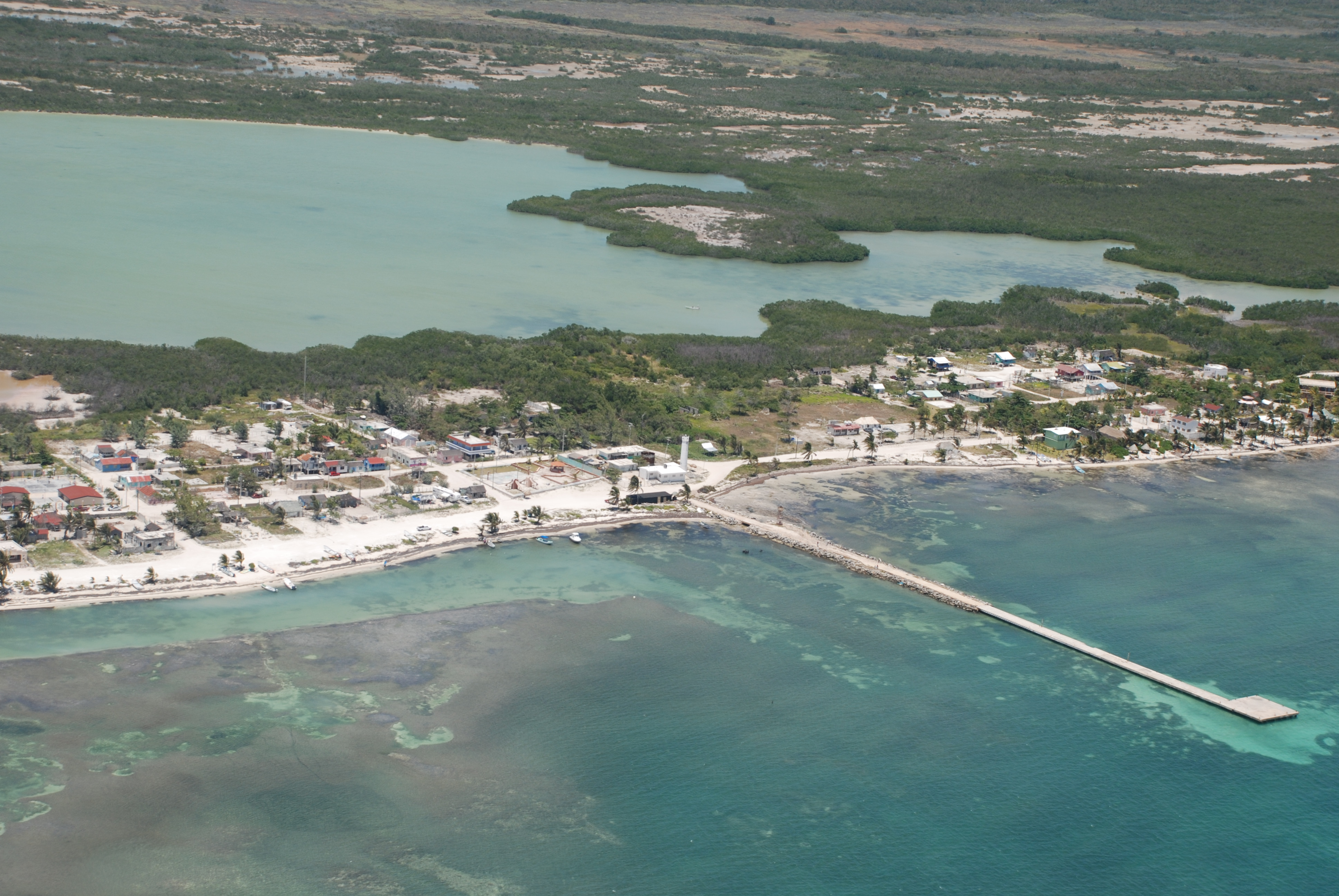 Xcalak fisherman Village